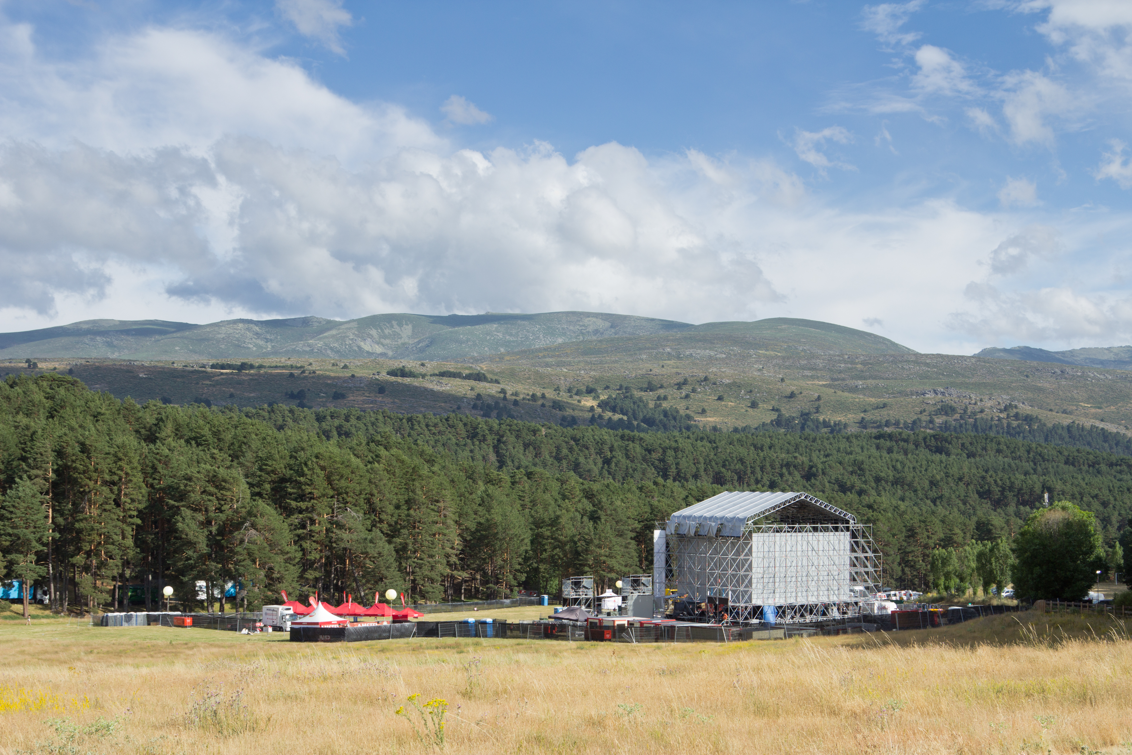 Venue and surroundings of the music festival Músicos en la naturaleza, in Hoyos del Espino, Ávila, Spain.